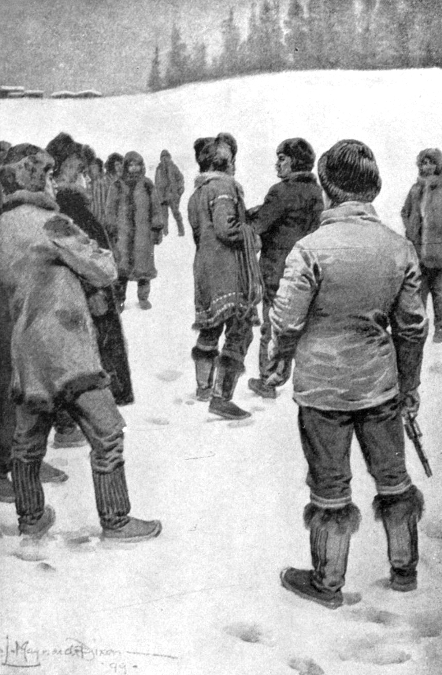 Frontispiece from The Son of the Wolf (1900) by Jack London